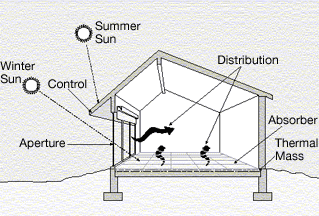 Passive solar heating illustration.